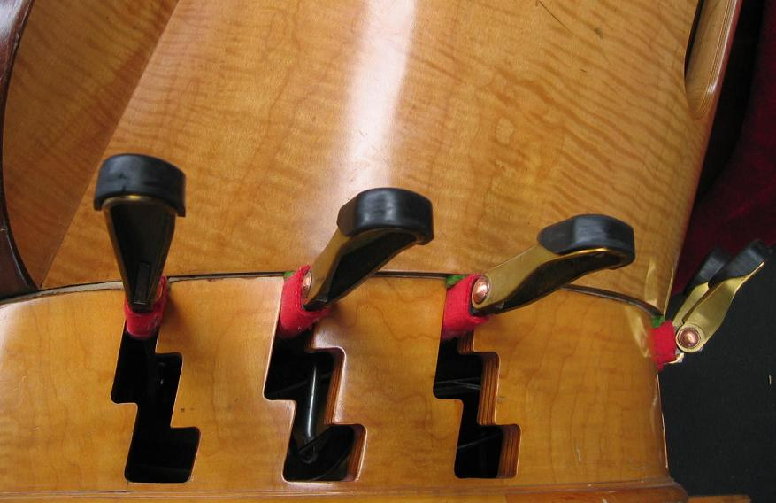 Harp pedals